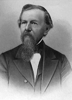 Albertus Christiaan van Raalte (born October 17, 1811, Wanneperveen, Netherlands; died July 27, 1876, Holland, Michigan) was an 19th century pastor in the Reformed Church in America. He led the Dutch immigrants who founded the city of Holland, Michigan in 1846 and established the school that would become Hope College. He was involved in the 1857 Secession of the Christian Reformed Church from the Reformed Church in America.